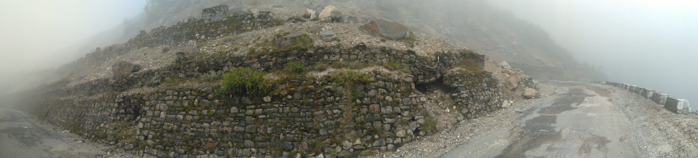 Panoramic View of Sela Pass